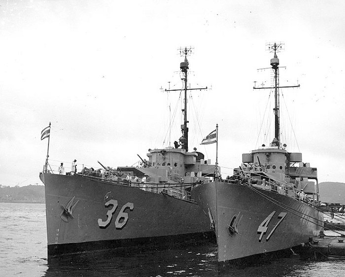 The U.S. Navy patrol frigates USS Glendale (PF-36) and USS Gallup (PF-47) fly the flags of Thailand, during transfer ceremonies at Yokosuka Naval Base, Japan, 29 October 1951. Both ships are still wearing their U.S. Navy hull numbers. Glendale became the Thai Navy ship Tachin (PF-1, later PF-411), Gallup became Prasae (PF-2).